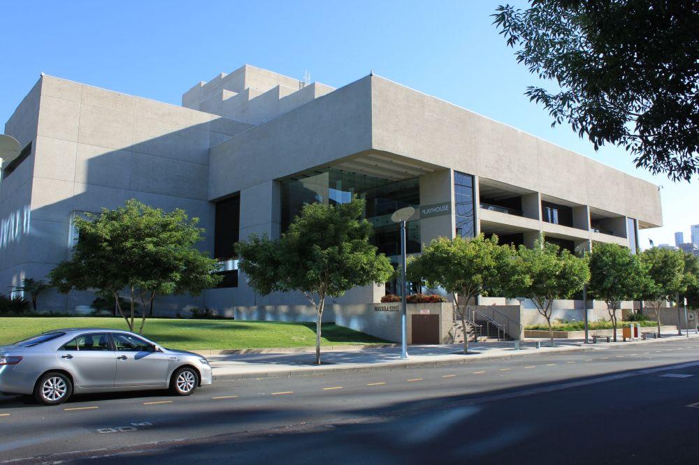 QPAC Playhouse (2015)